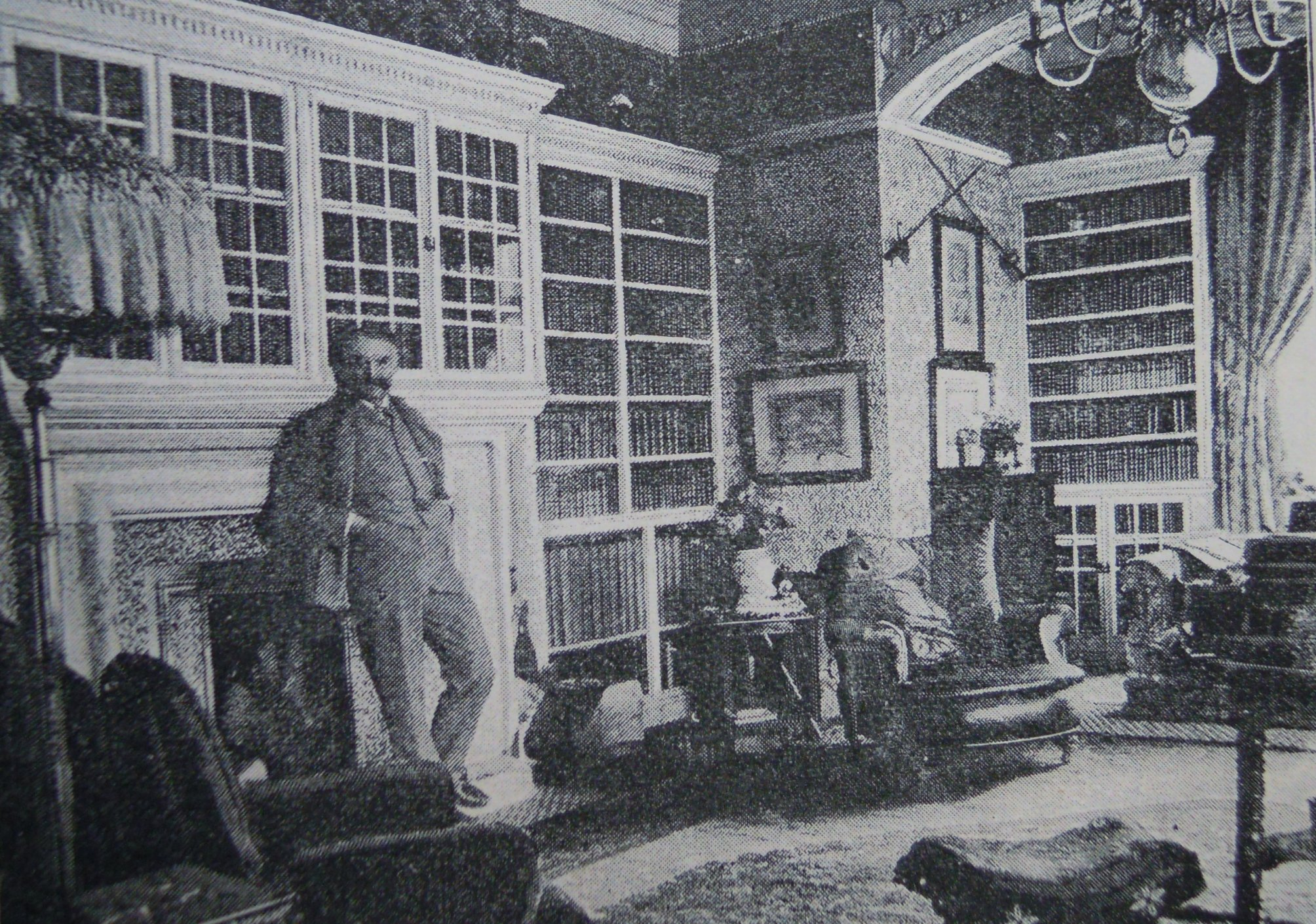 Photograph of W. S. Gilbert in the library at Grim's Dyke.